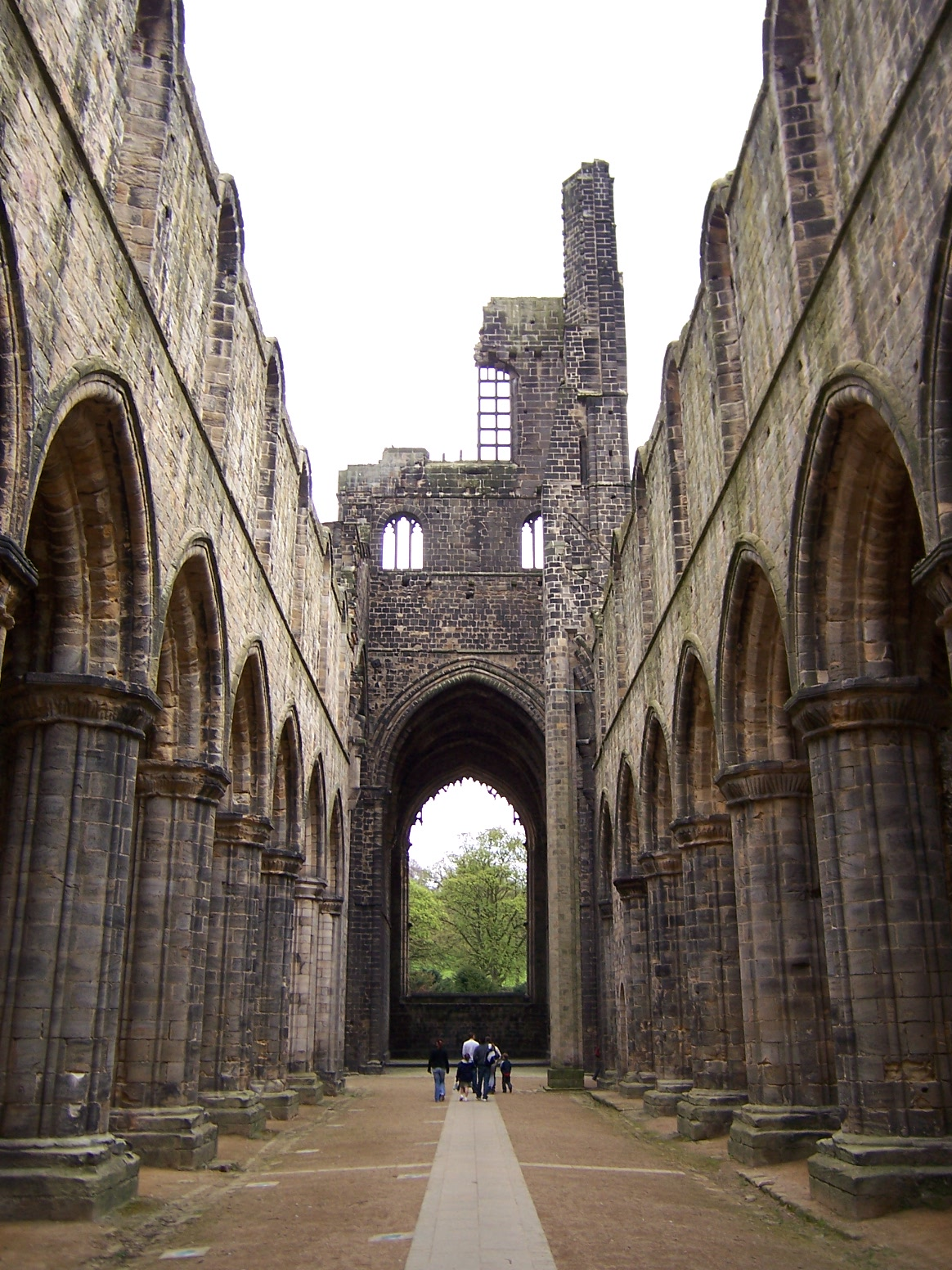 nave of the church of Kirkstall Abbey in Leeds, Yorkshire (England); view to the east own work; photo taken on 30 April 2006